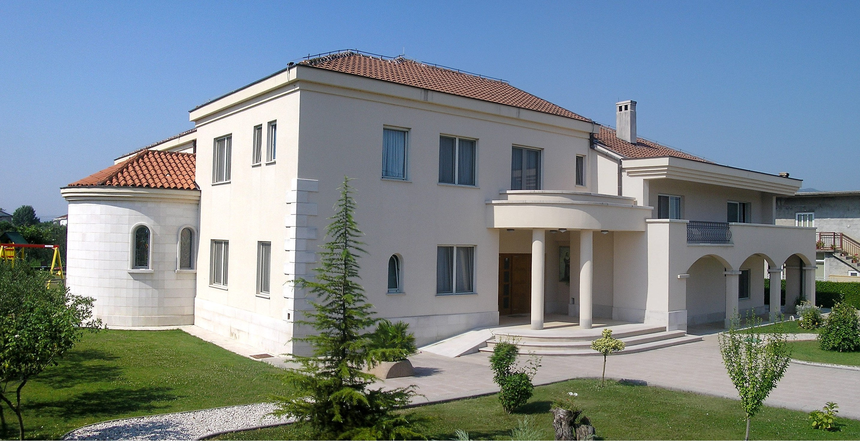 Carmelite Order Monastery, Gabela Polje, BiH